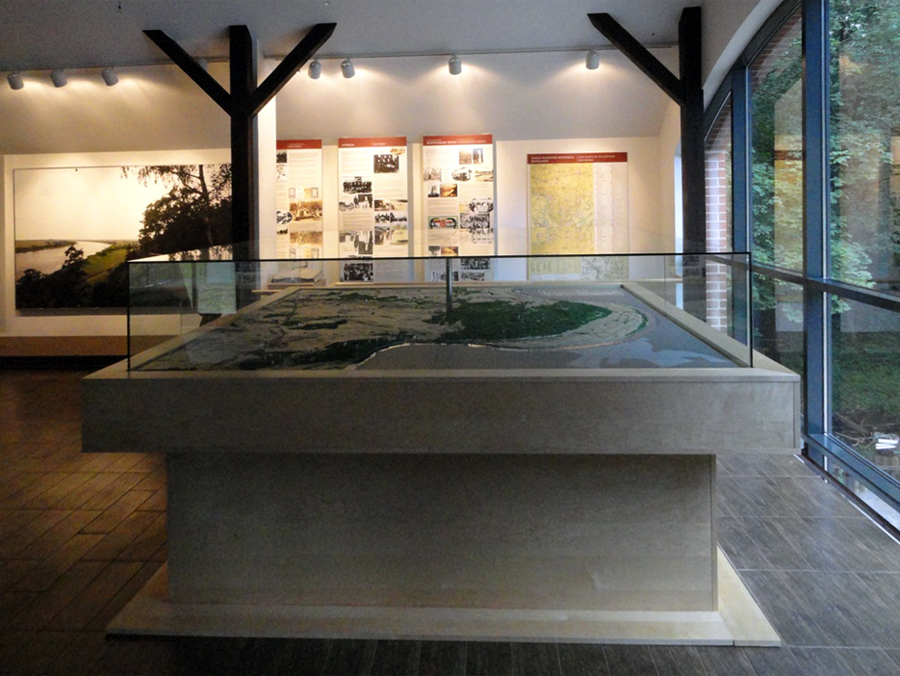 Rambyno Visitor Centre exposition part-1